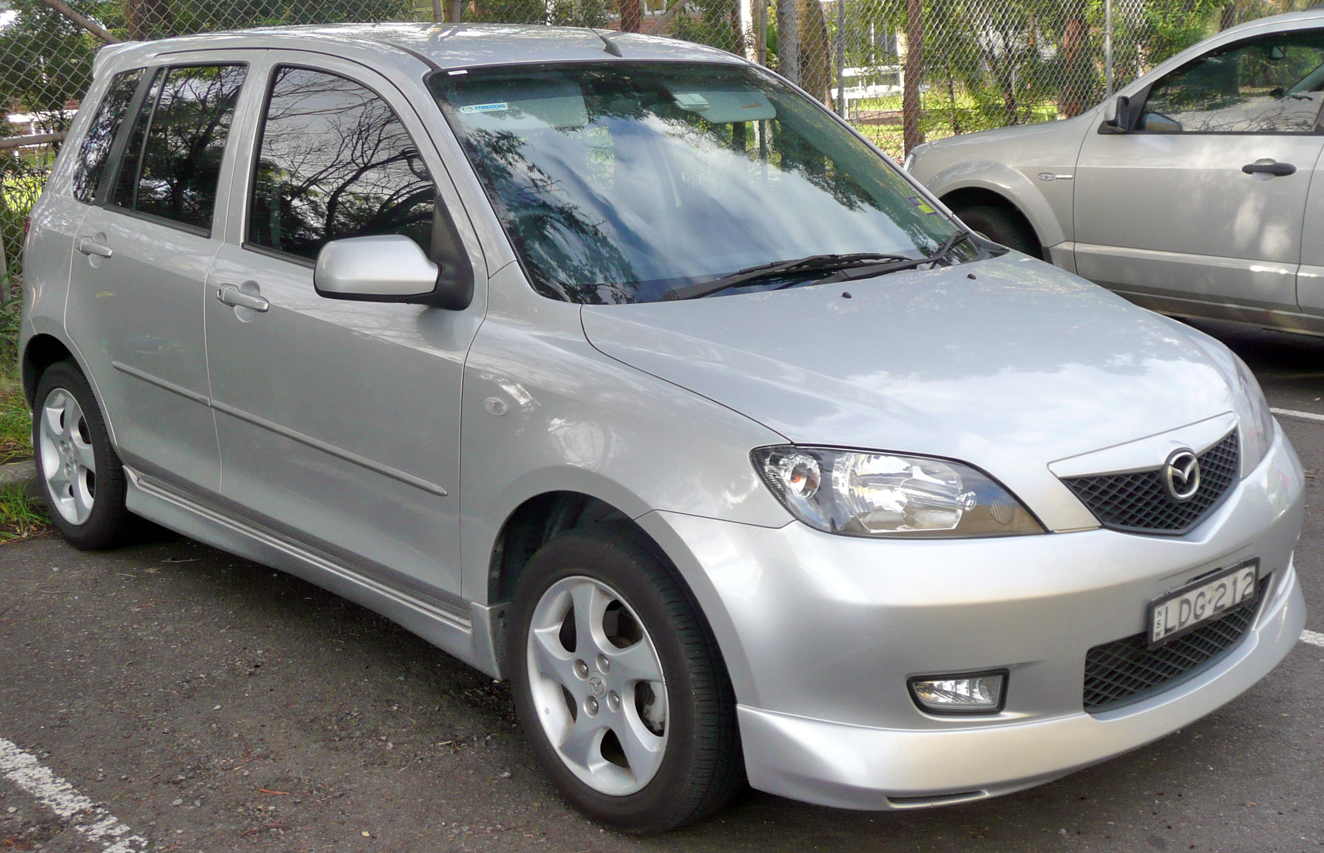 2002–2004 Mazda2 (DY) Genki hatchback. Photographed in Loftus, New South Wales, Australia.